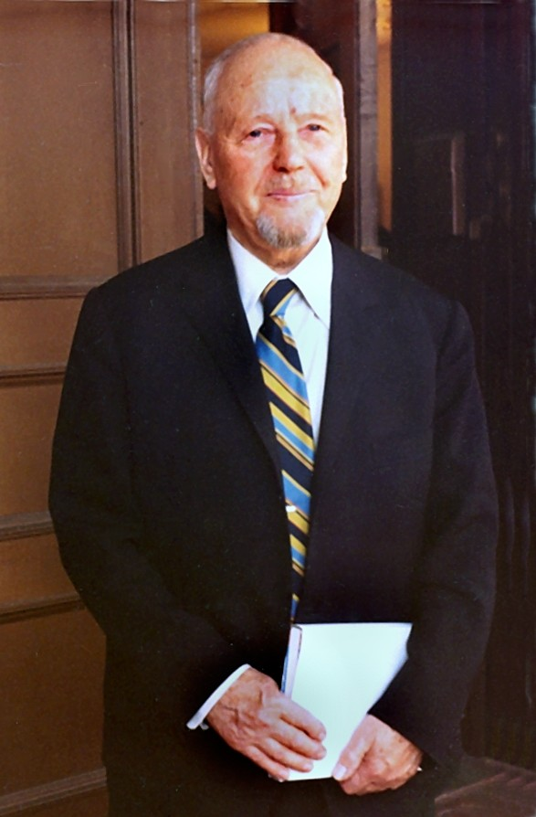 Martins Krumins at the Exhibit of his Paintings at Daugavas Vanagi in Bronx, New York.